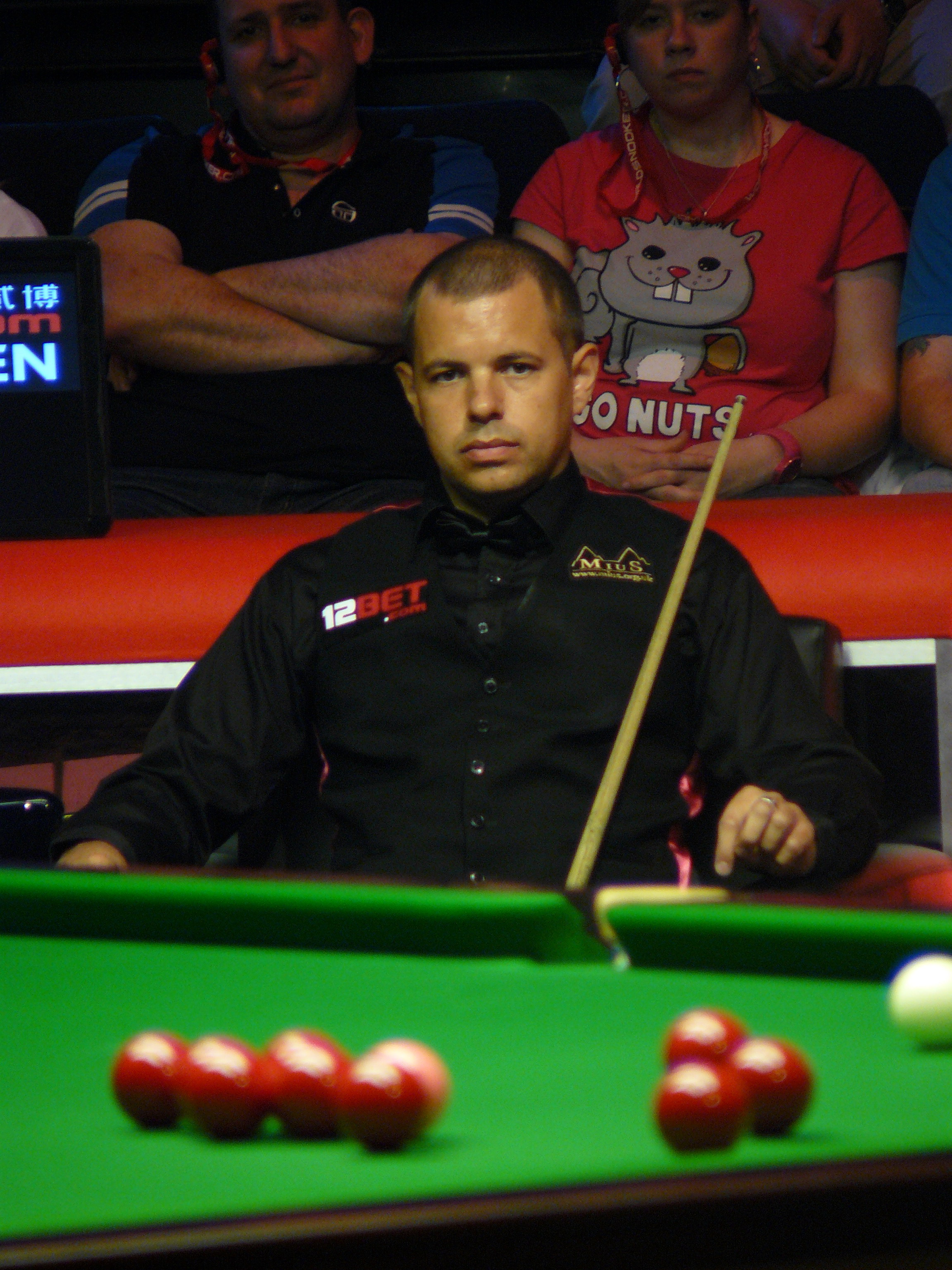 Barry Hawkins World Open 2010